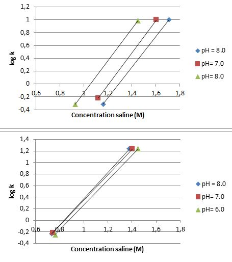 Influence du pH sur la rétention en HIC